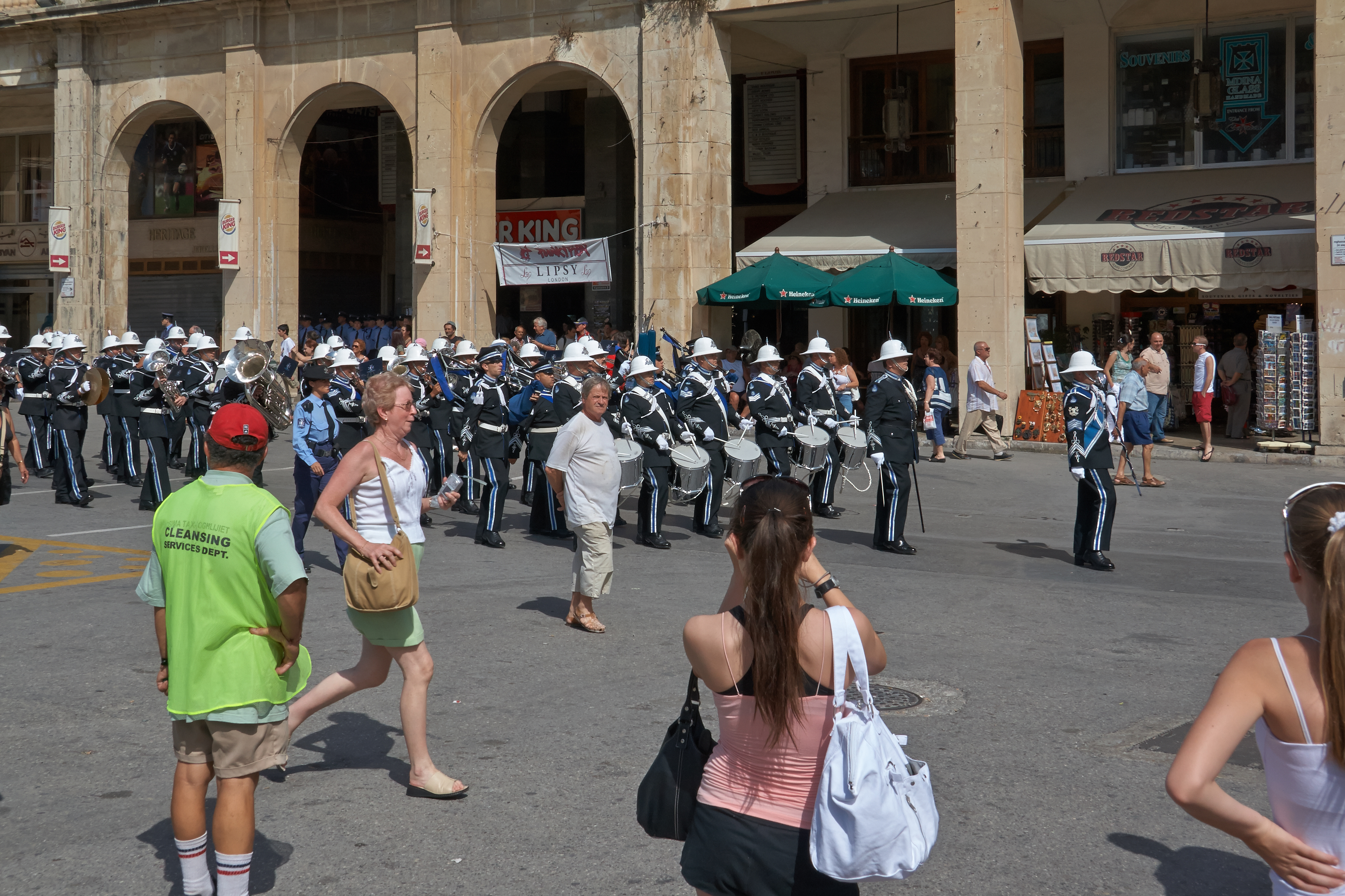 Valletta